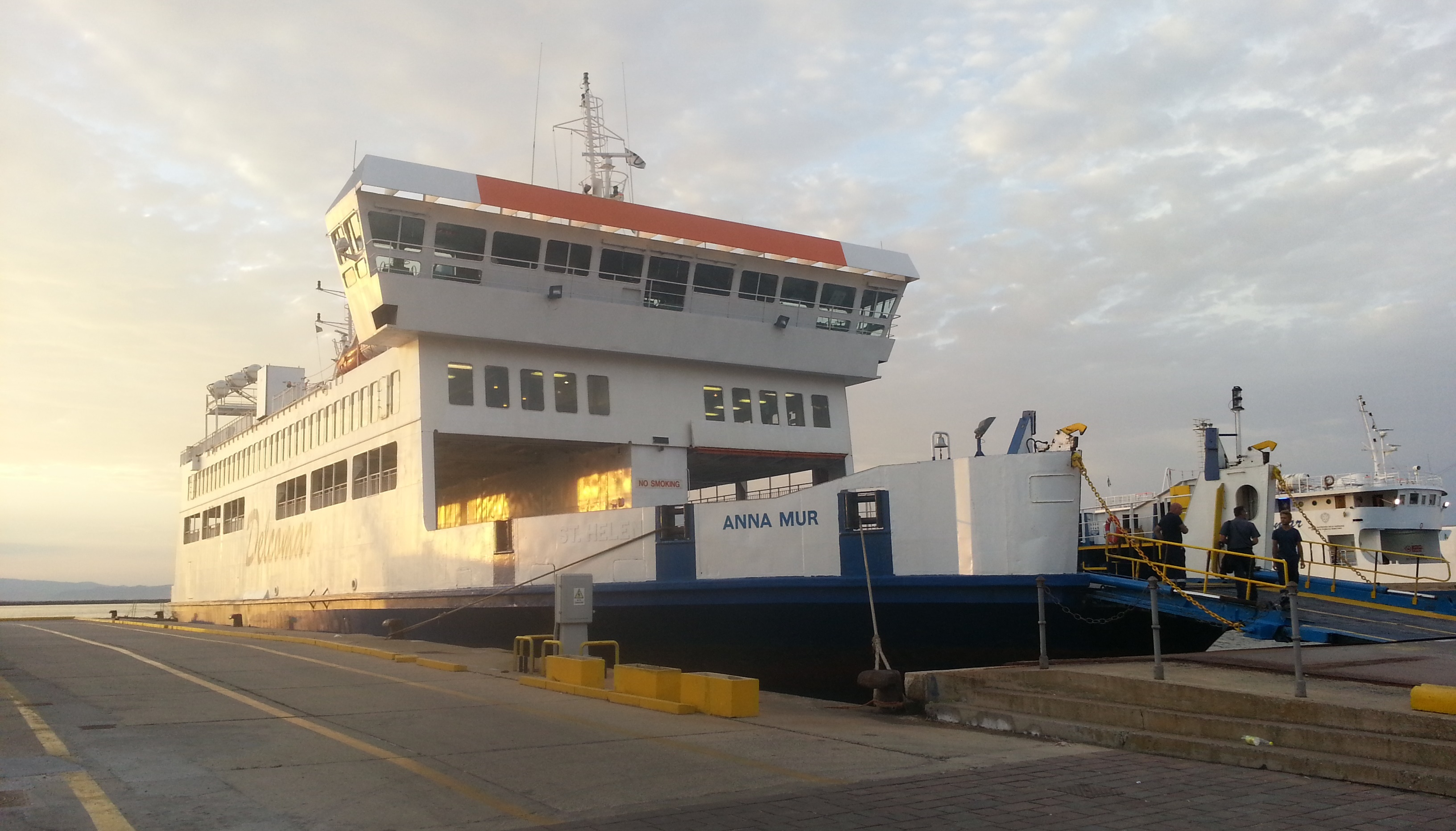 Car and passenger ferry Anna Mur, former MV St Helen while moored in Carloforte harbour (Isola di San Pietro, Sardinia)